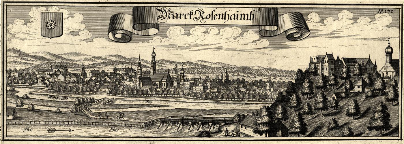 bez. o. M.: Marct Rosenhaimb. o.r.: M 170 Kupferstich aus: Michael Wening: Historico-Topographica Descriptio Bavariae. München 1701